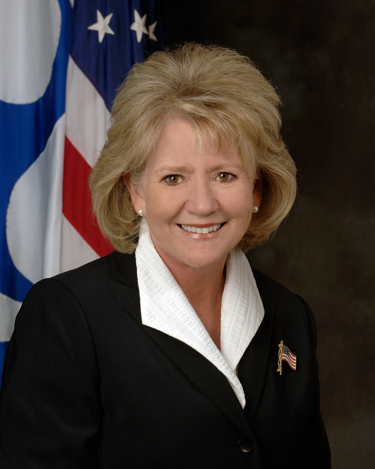 Official portrait of former United States Secretary of Transportation Mary Peters.